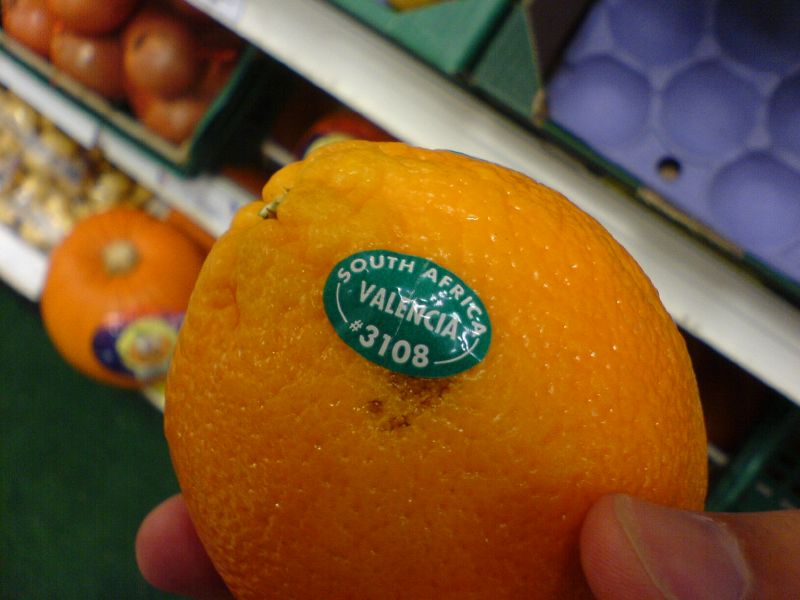 A Valencia Orange, Citrus sinensis, produced in South Africa.